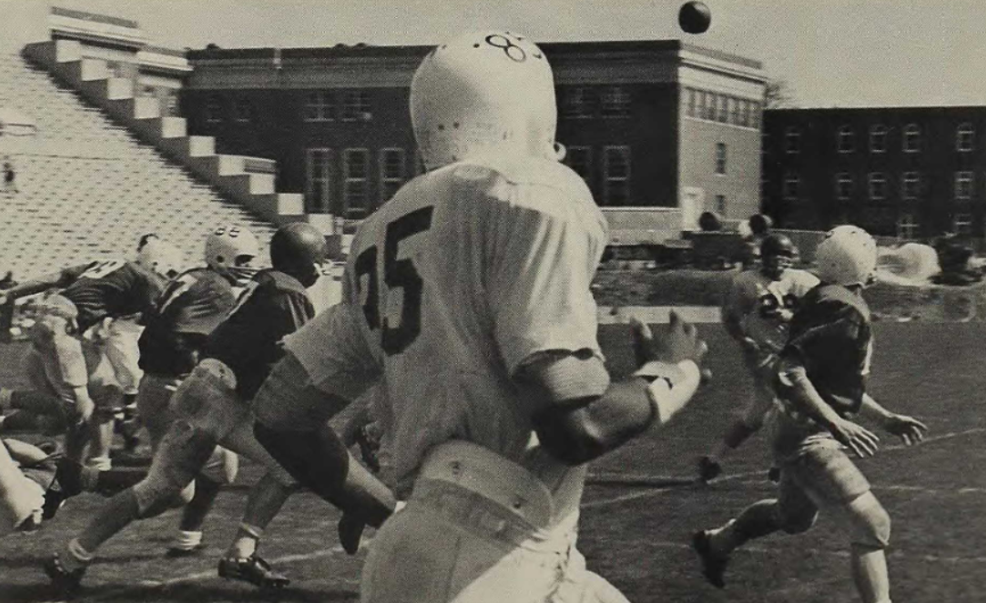 Photograph of Freeman White in 1964 football game against Colorado